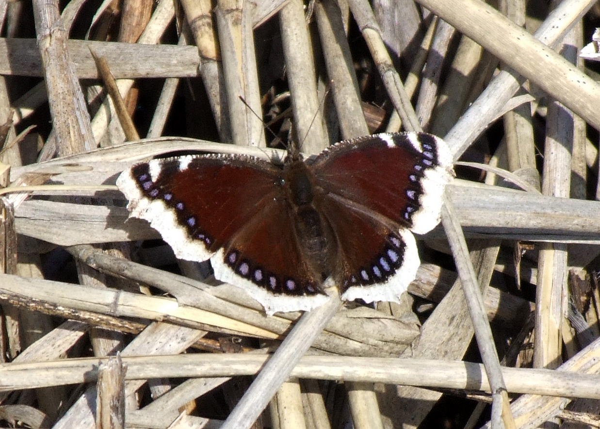 Mourning Cloak or Camberwell Beauty (Nymphalis antiopa) in Oulu, Finland